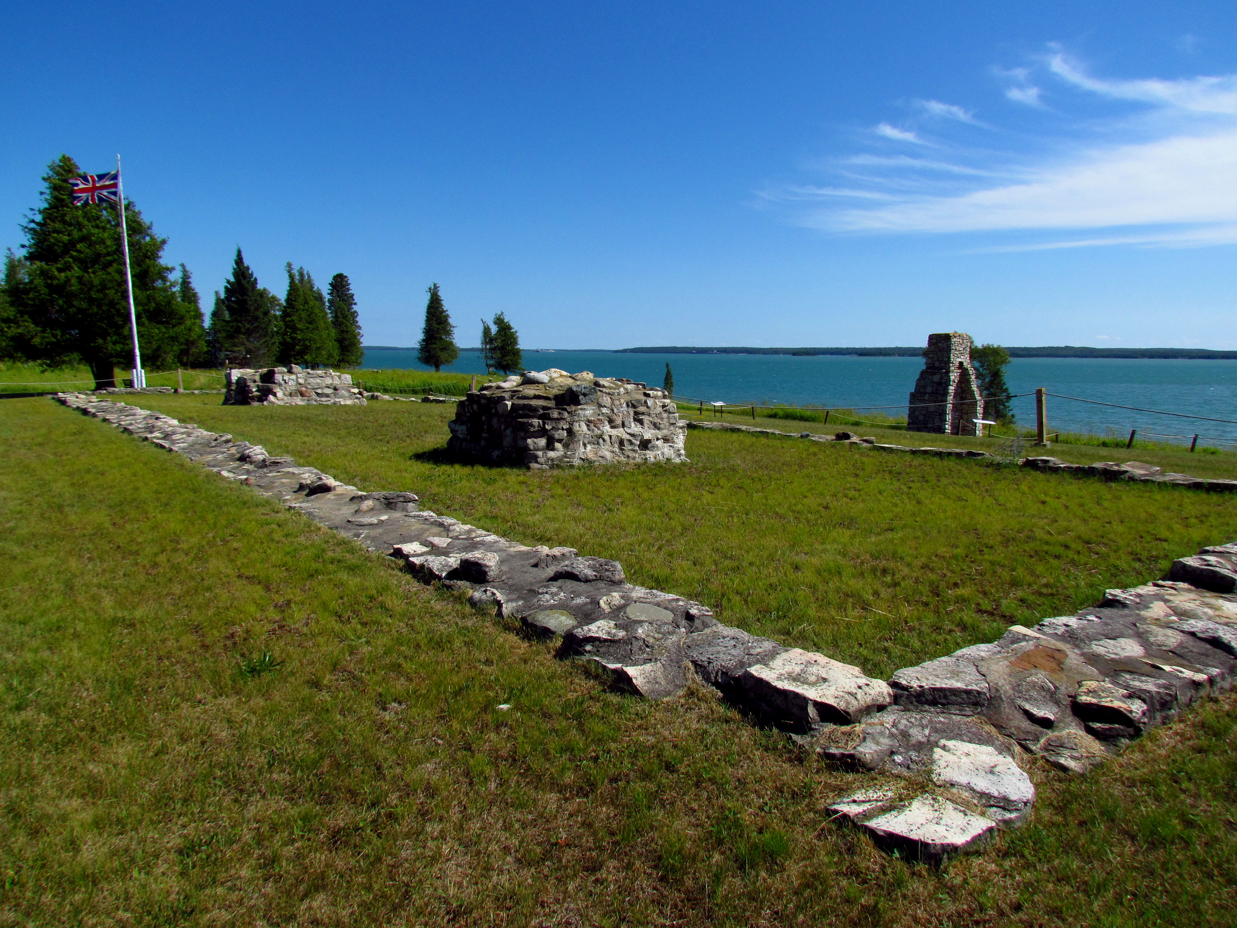 Fort St. Joseph National Historic Site, blockhouse and chimney